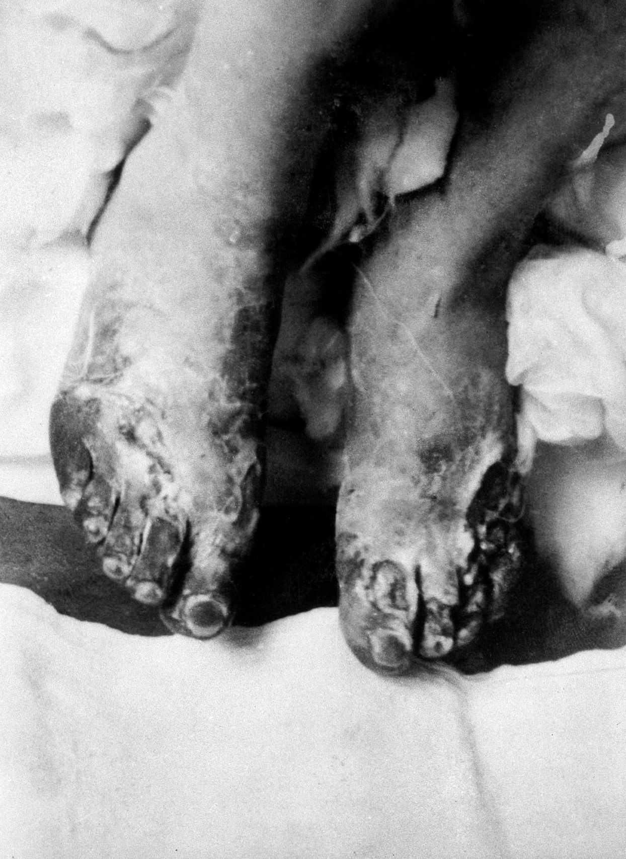 Mass grave and trench foot Archives & Manuscripts Keywords: belsen concentration camp; frost bite; Gangrene; Allen Percival Prior; Bergen-Belsen